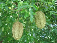 The leaves and fruit of Flindersia australis.